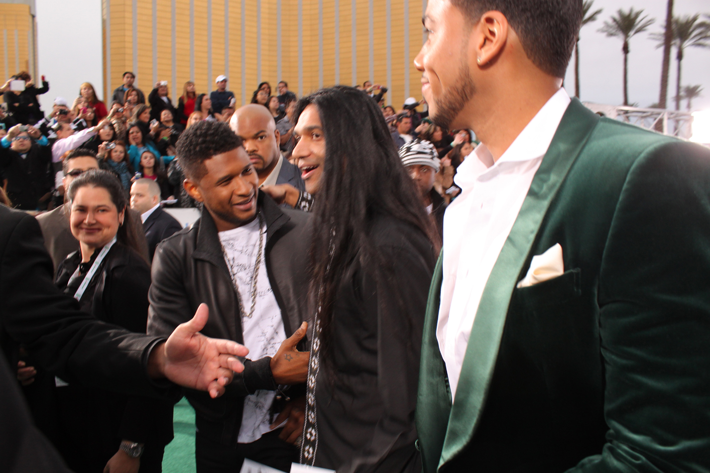 Usher Raymond, Anand Bhatt, Romeo Santos arrive to the Latin Grammy music awards together. Red Carpet Shot.